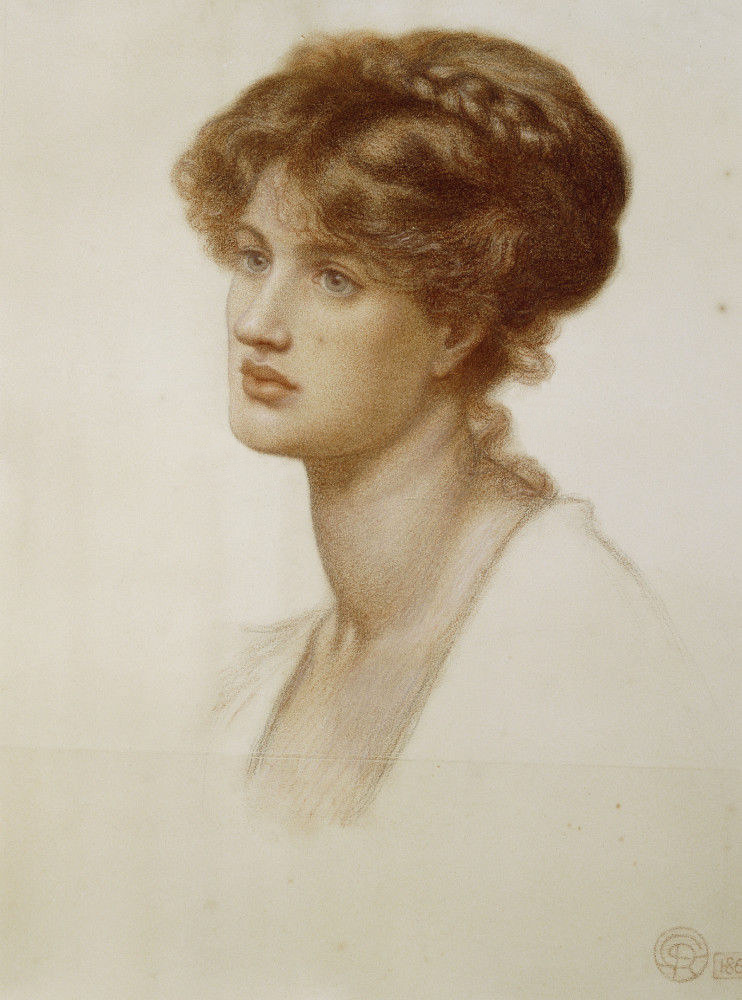 Marie Spartali Stillman (1844-1927)